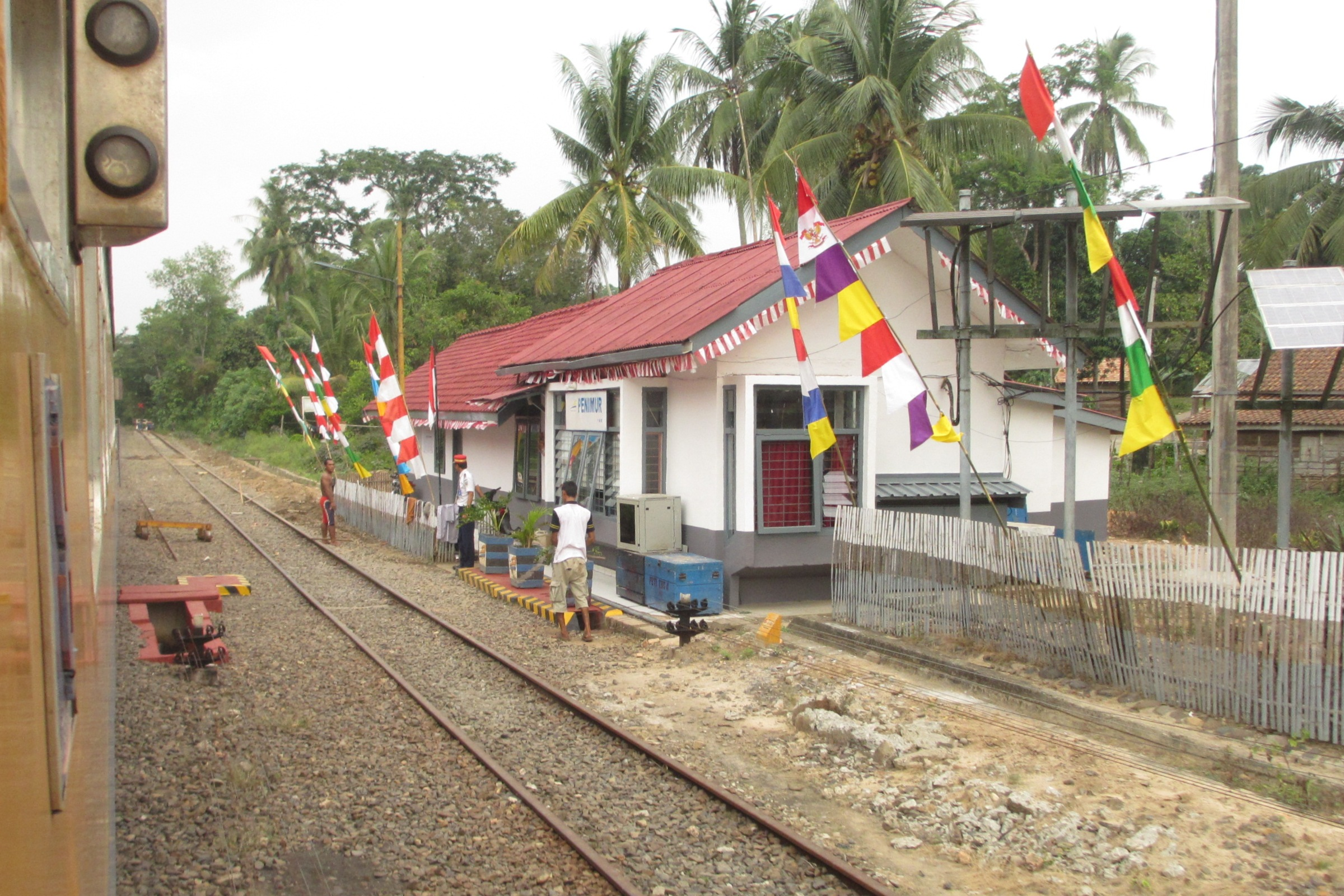 Penimur Railway Station.